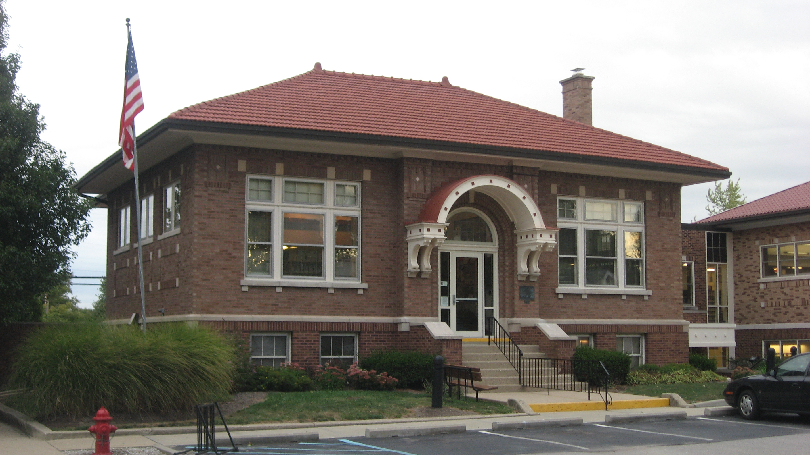 Front and northern side of the Thorntown Public Library, located at 124 N. Market Street in Thorntown, Indiana, United States. Built in 1914, it is listed on the National Register of Historic Places.